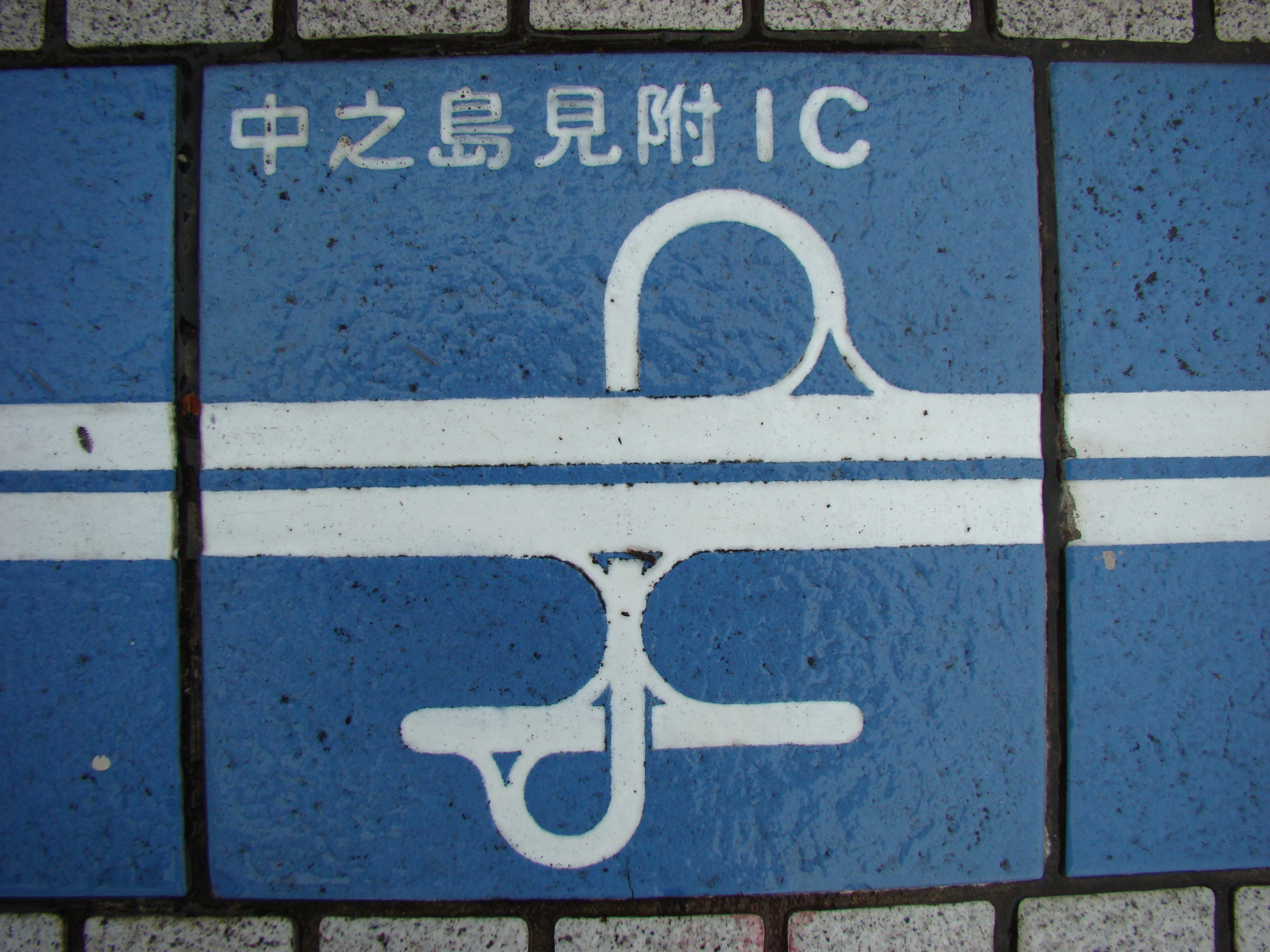 The tile which designed a shape of the Nakanoshima-Mitsuke Interchange（Hokuriku Expressway）（There is this tile in Hokuriku Expressway Nadachi-Tanihama Service Area.）. Place - Chayagahara,Joetsu City,Niigata Prefecture,Japan Date - August 9, 2009 Format - JPEG, 3264x2448pixel, 24bit colors. Photographer - NALA Wiki (talk)